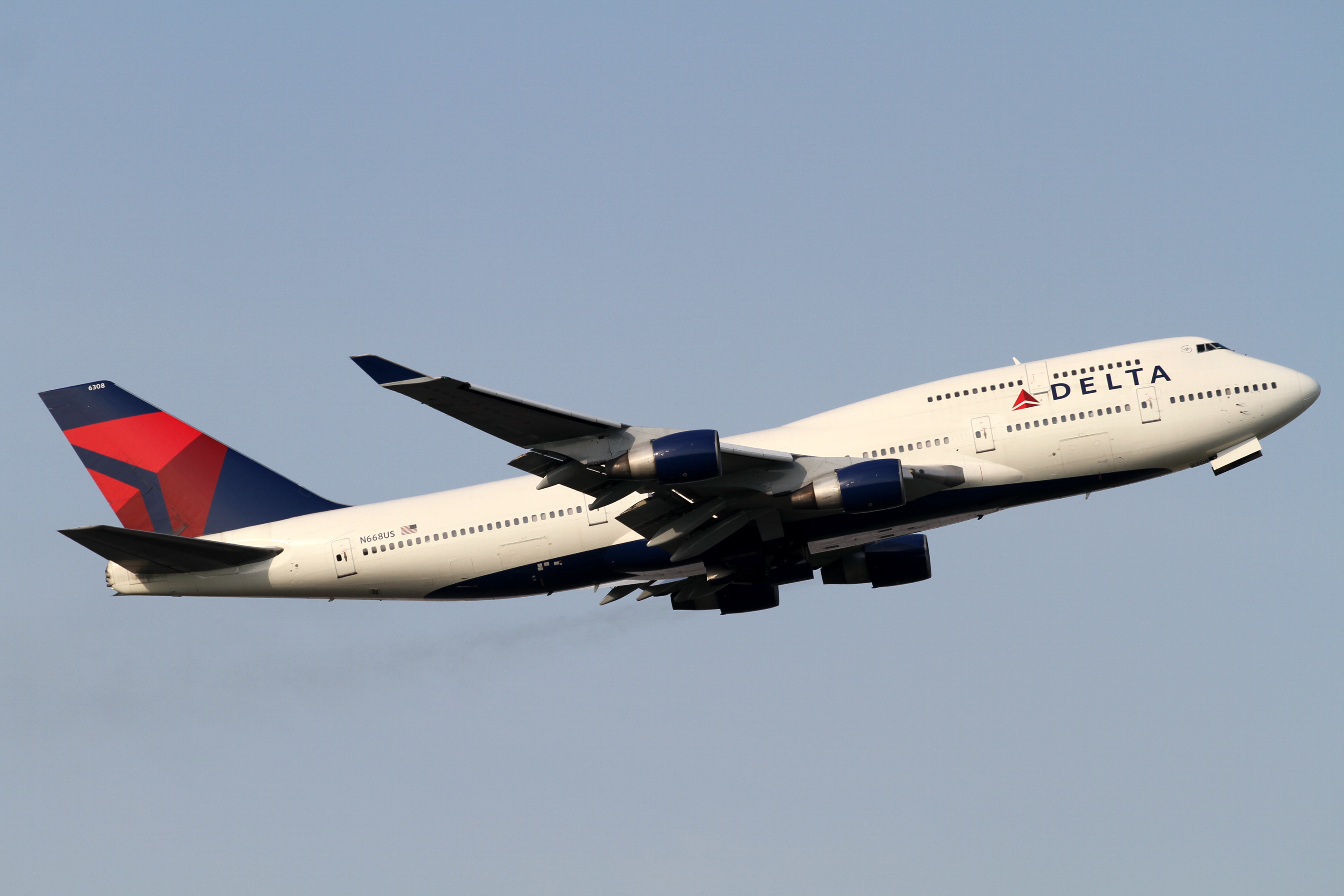 Narita International Airport, Boeing 747-451, c/n:24223, Delta Air Lines